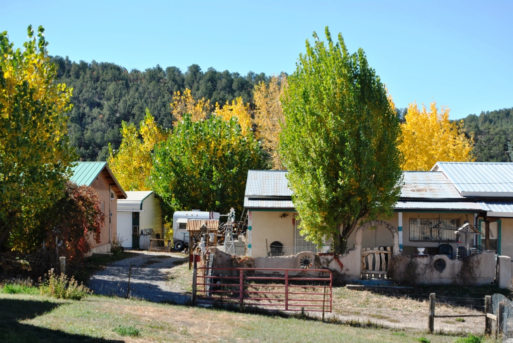 The Las Trampas Historic District — in Las Trampas, New Mexico.